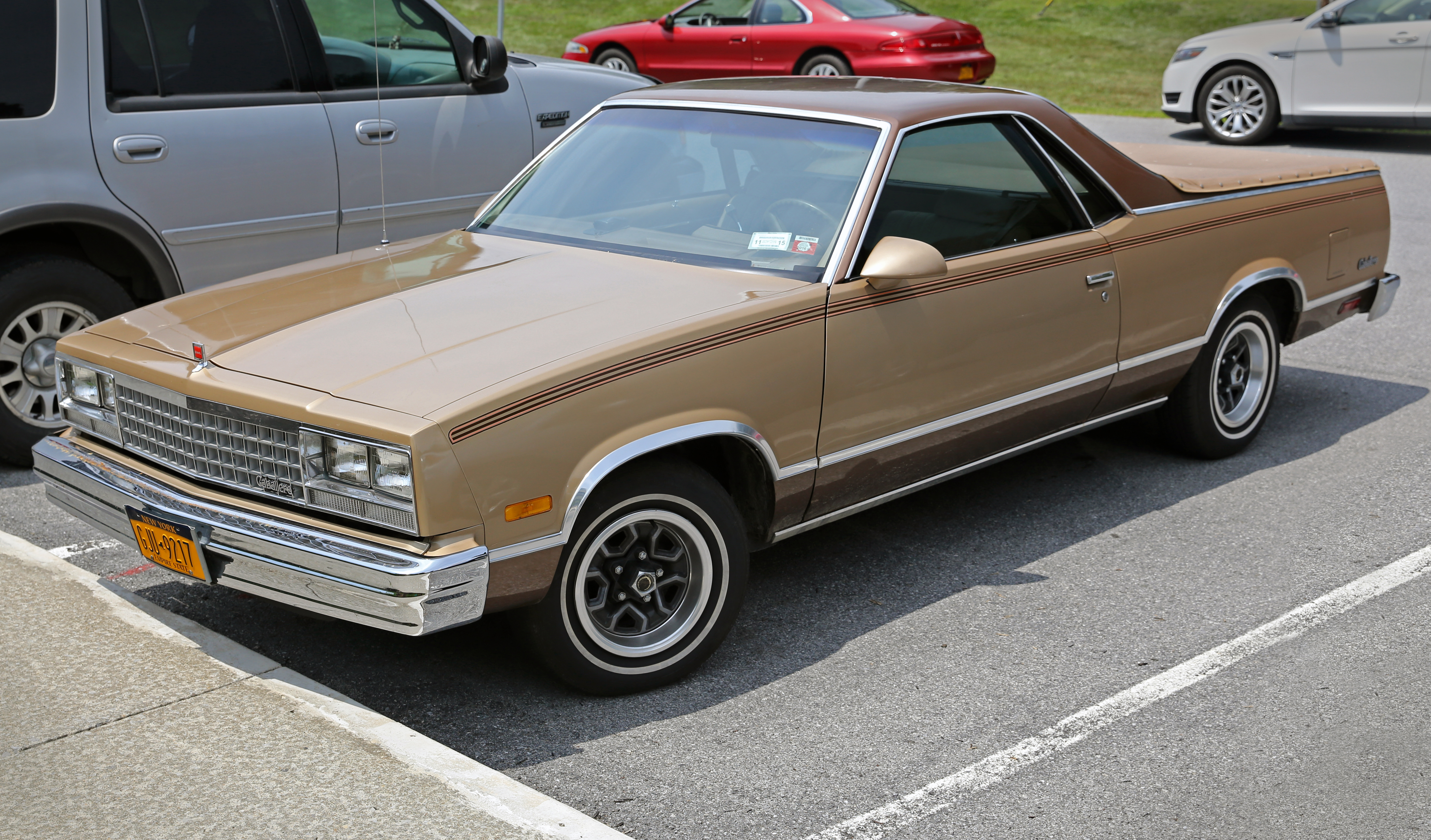 Front left 3/4 view of a 1987 GMC Caballero Amarillo. Suitably enough (considering all the Spanish-language names), this one is built in Ramos Arizpe, Mexico. 5.0-litre 4-bbl V8 engine and in absolutely perfect condition. Last model year, quite rare.